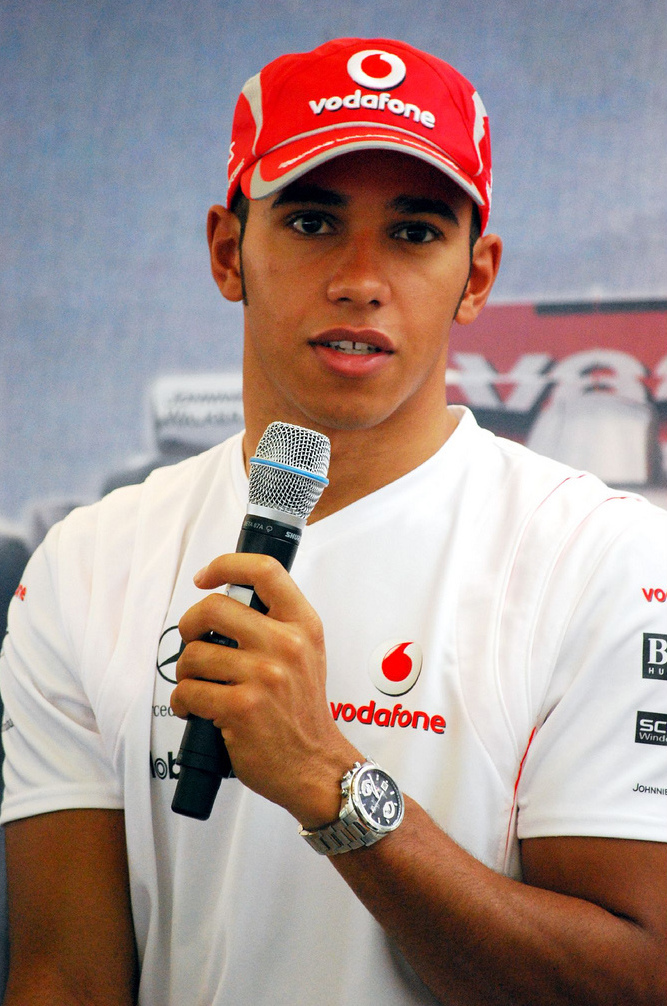 Lewis Hamilton at 2008 Singpaore Grand Prix